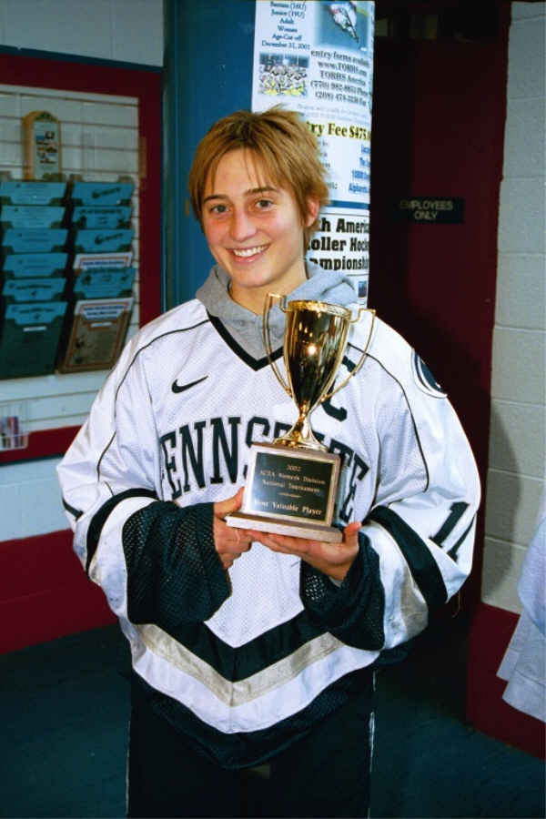 Former Penn State women's hockey player Andrea Lavelle with her trophy for winning most valuable player at the 2002 ACHA National Tournament.